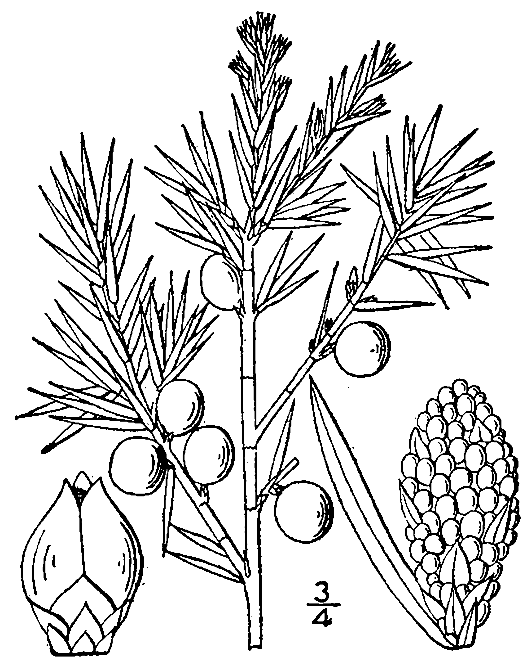 Common Juniper, drawing.